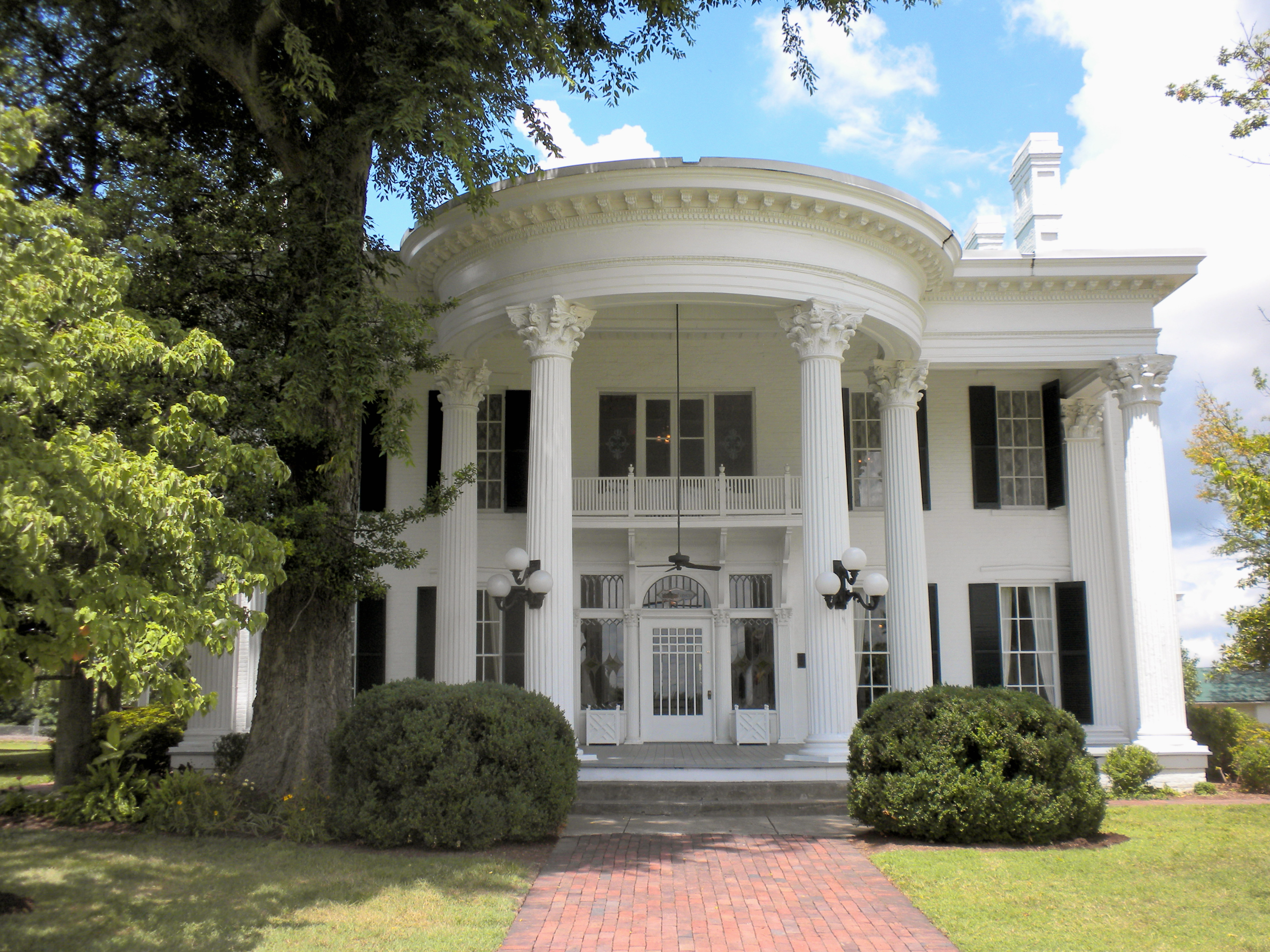 Anderson-Smith House, known as Whitehaven or "Bide-a-wee." On the NRHP since March 1, 1984. Formerly at Lone Oak Rd., in Paducah, Kentucky, but now an official state Welcome Center and house museum off Interstate 24. Associated with Paducah Mayor James P. Smith and Truman's VP Alben Barkley